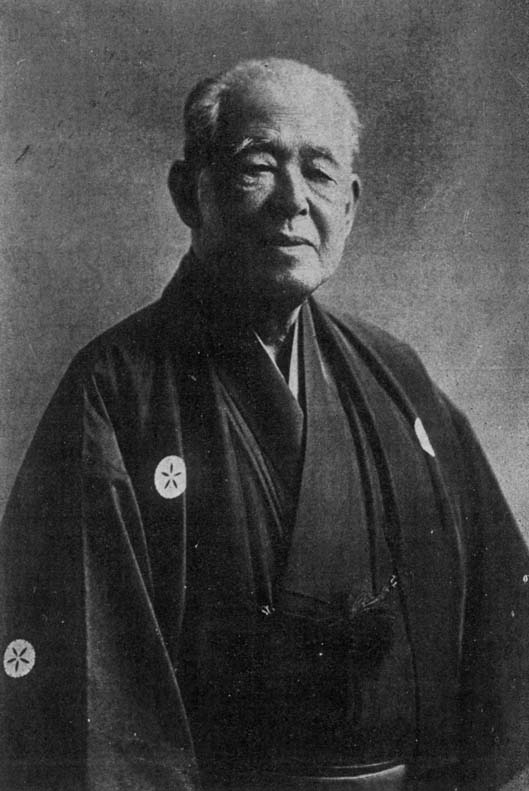 Portrait of Dr. Kunitake Kume.